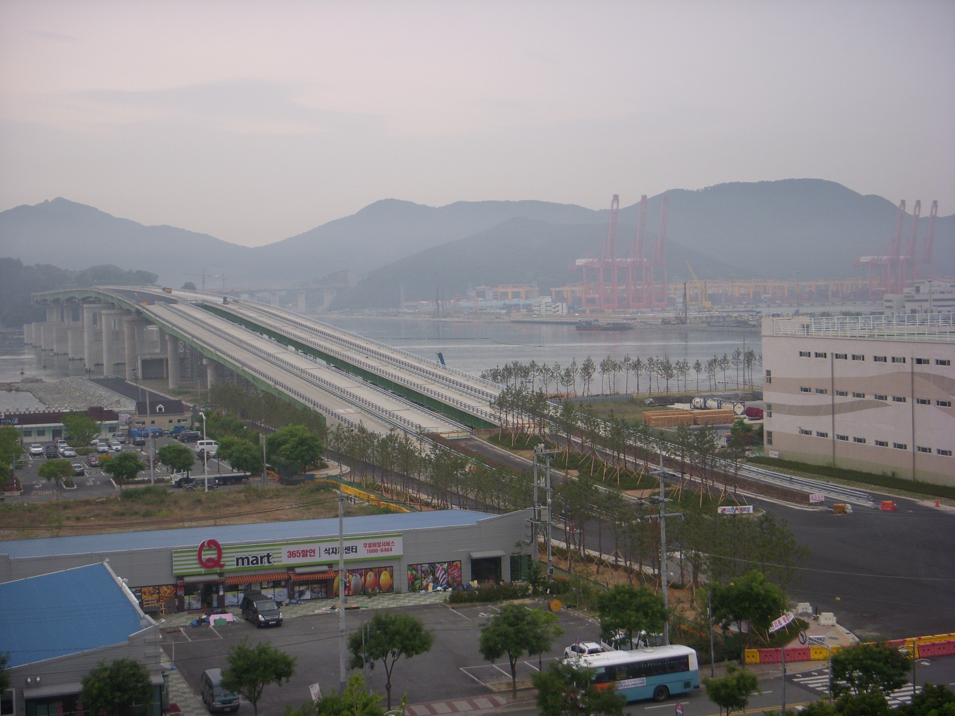 Gaduk Bridge,has been constructing in Busan Ganseo_Gu Noksan